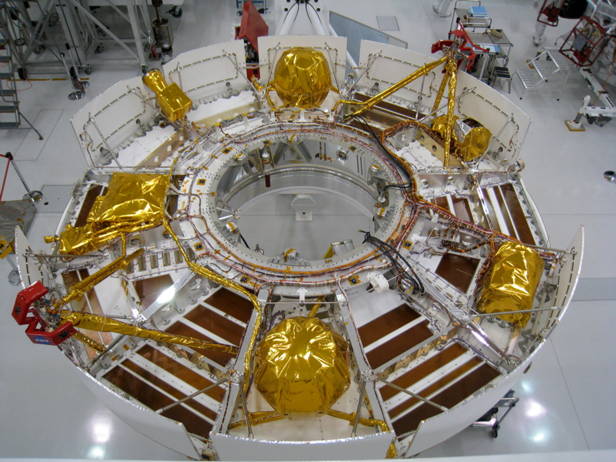 This portion of the Mars Science Laboratory spacecraft, called the cruise stage, will do its work during the flight between Earth and Mars after launch in the fall of 2011.